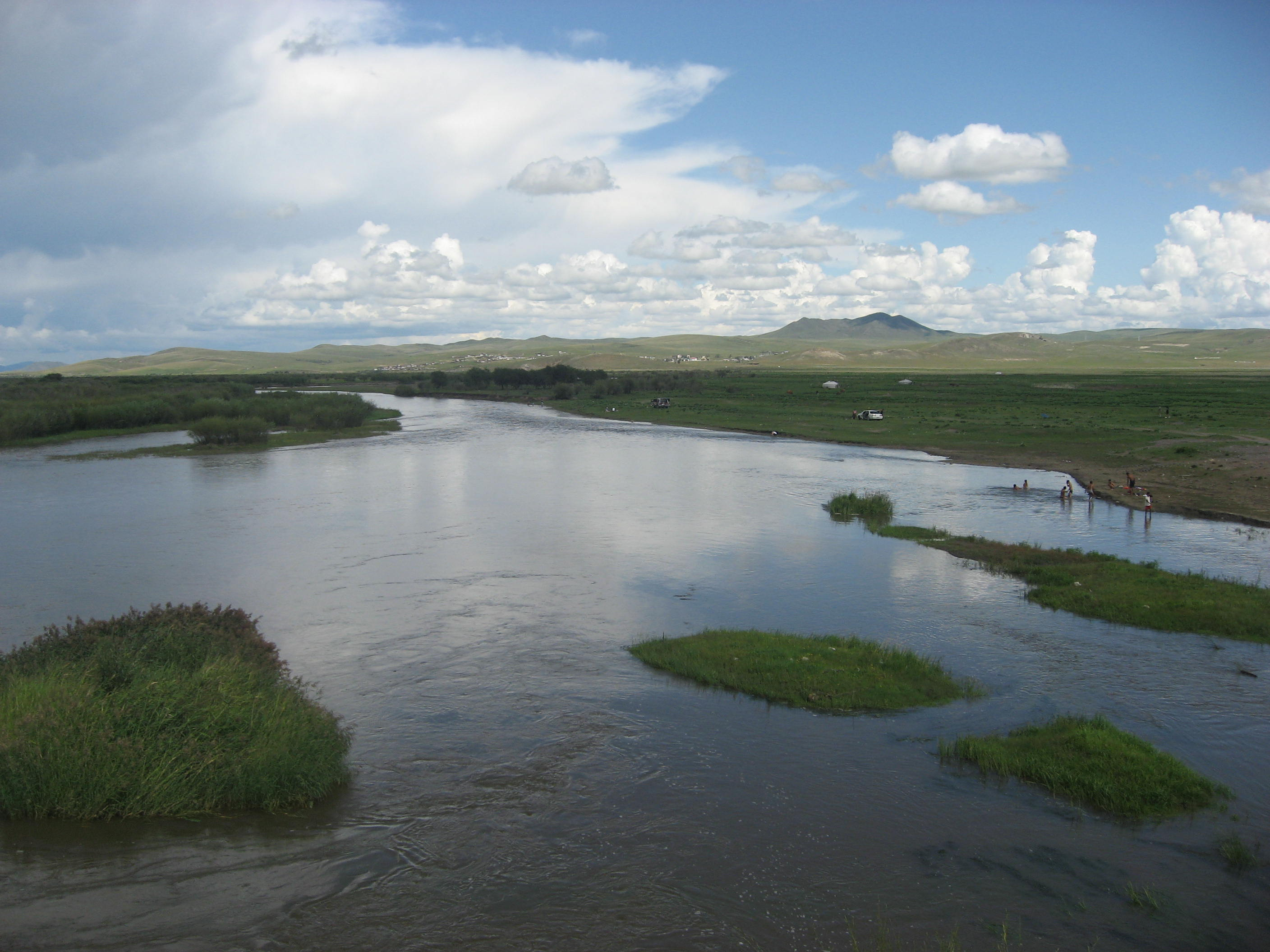 Orchon River in Mongolia - between Erdenet and Darchan